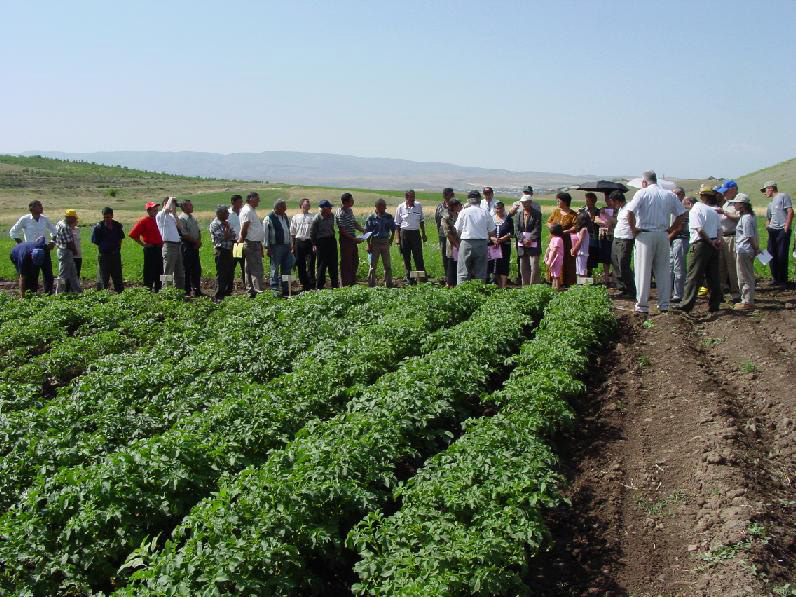 Tomato fields in Armenia.